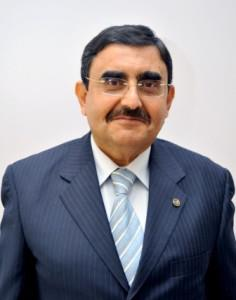 Essam El-Haddad personal photo